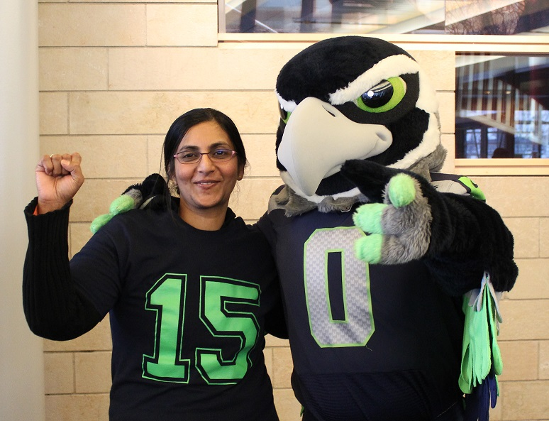 Seattle City Council member Kshama Sawant with Seattle Seahawks mascot, January 2015.